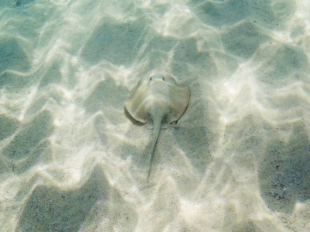 Common stingaree (Trygonoptera testacea) in Gordon's Bay, Sydney